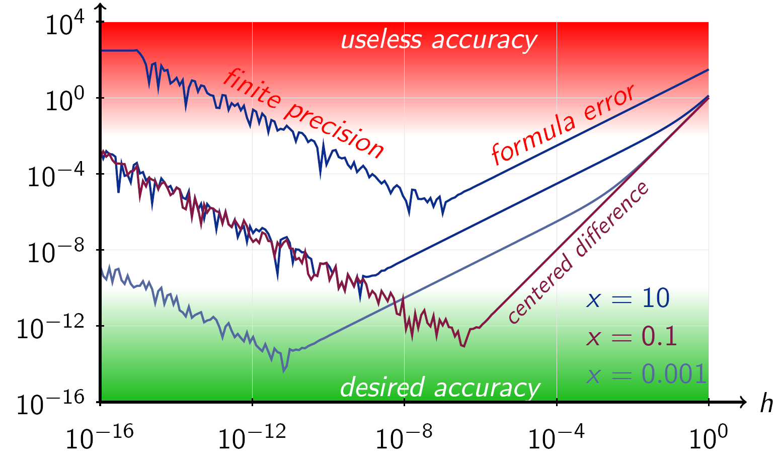 The absolute error in numerical differentiation